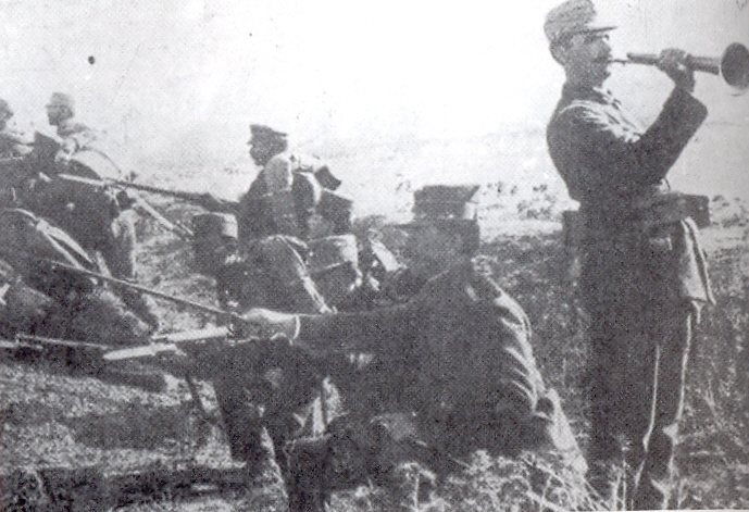 Greek infantry charge during the Battle of Giannitsa (First Balkan War) 1912.